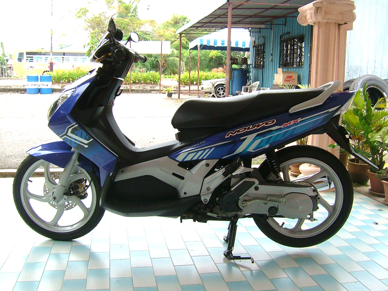 2006 Yamaha Nouvo MX or second generation model - featuring a sportier look with newly design headlamp, tail light and sport rims with tubeless tires, previous model came with spoke rims.